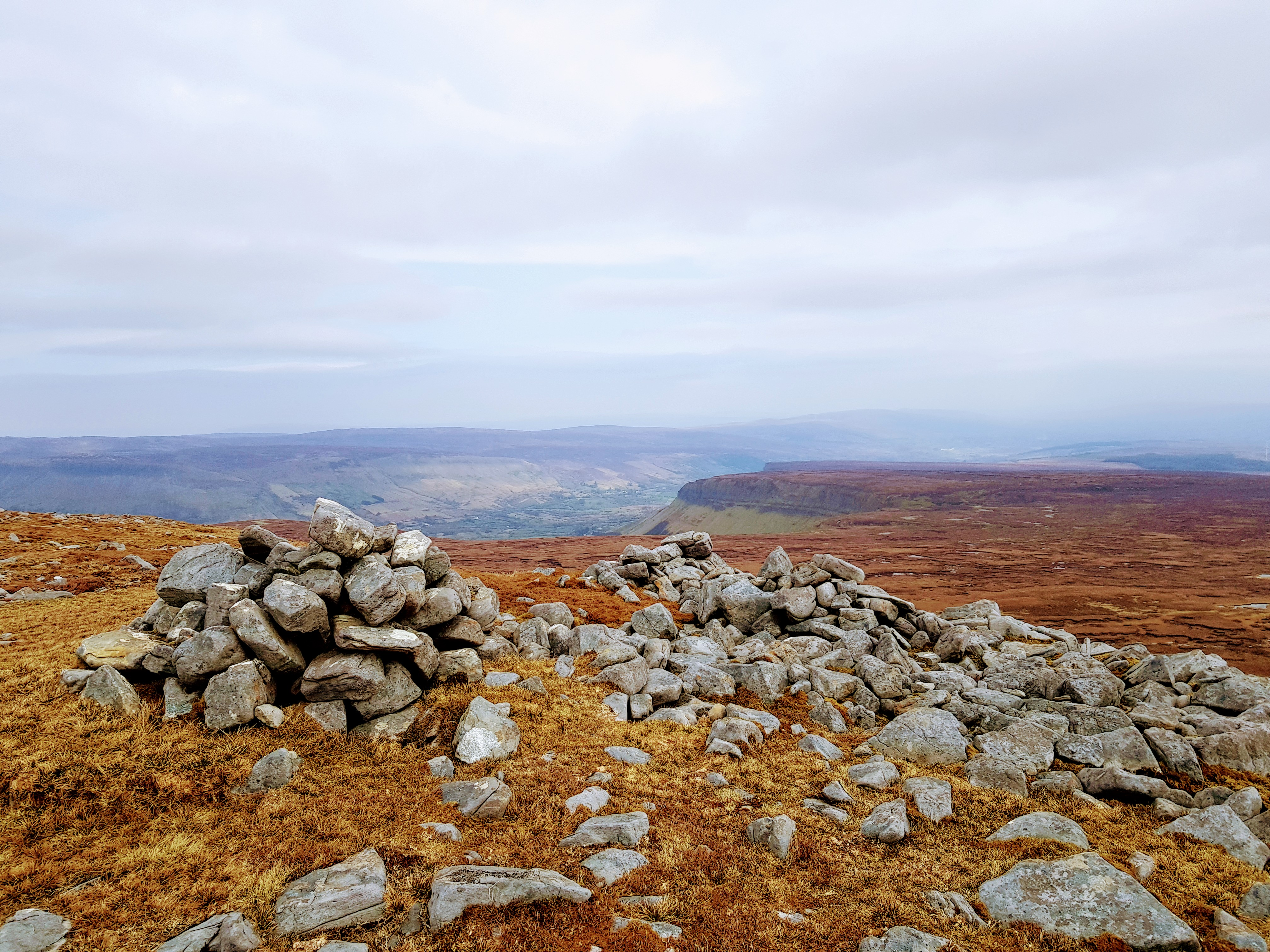 Truskmore SE Cairn, Co. Leitrim, 631m